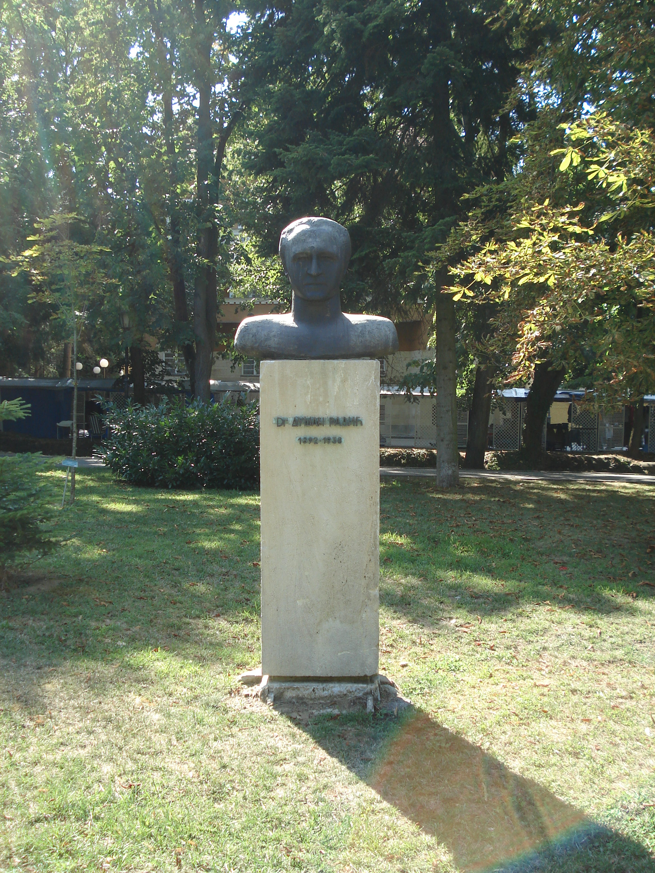 Dr Dušan Radić, Vrnjačka Banja, bista 001